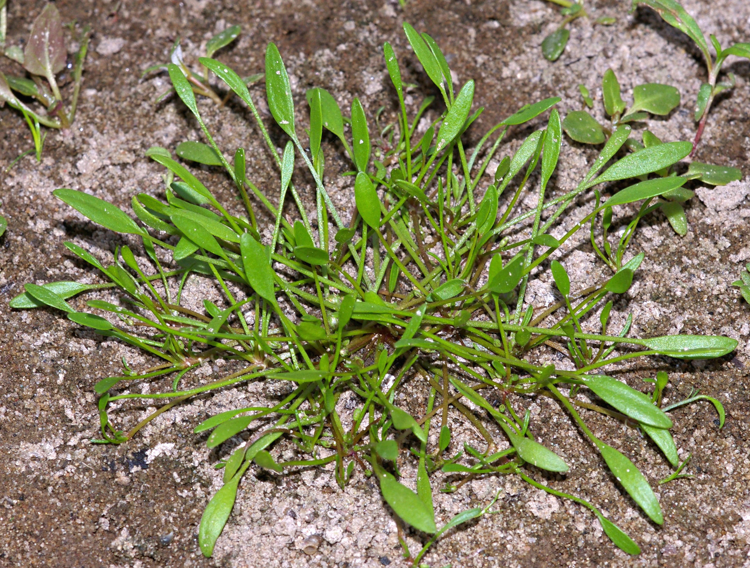 Habitus of Limosella aquatica (Plantaginaceae, formerly Scrophulariaceae) at the banks of the Elbe River.